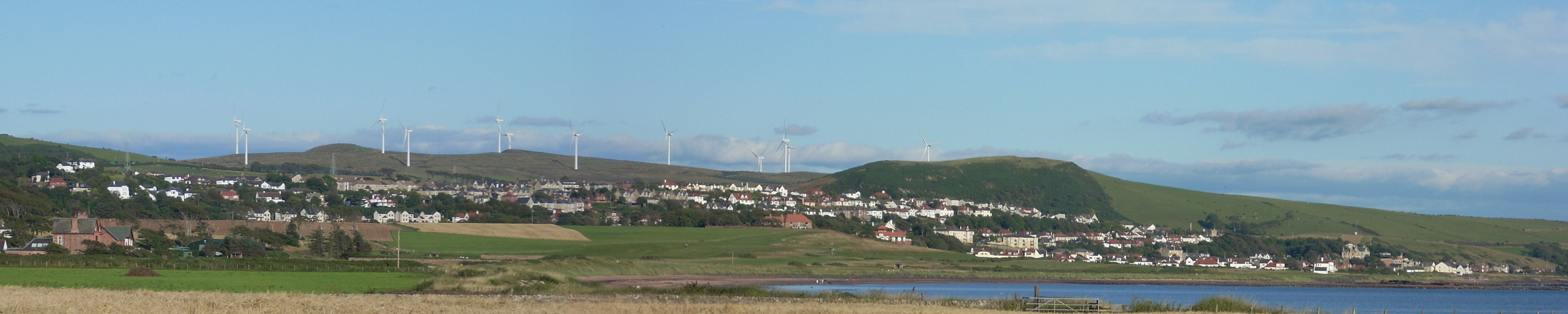 A view of West Kilbride and Seamill in North Ayrshire, Scotland. Photograph taken by Dreamer84 from Portencross on en:20 August en:2007.